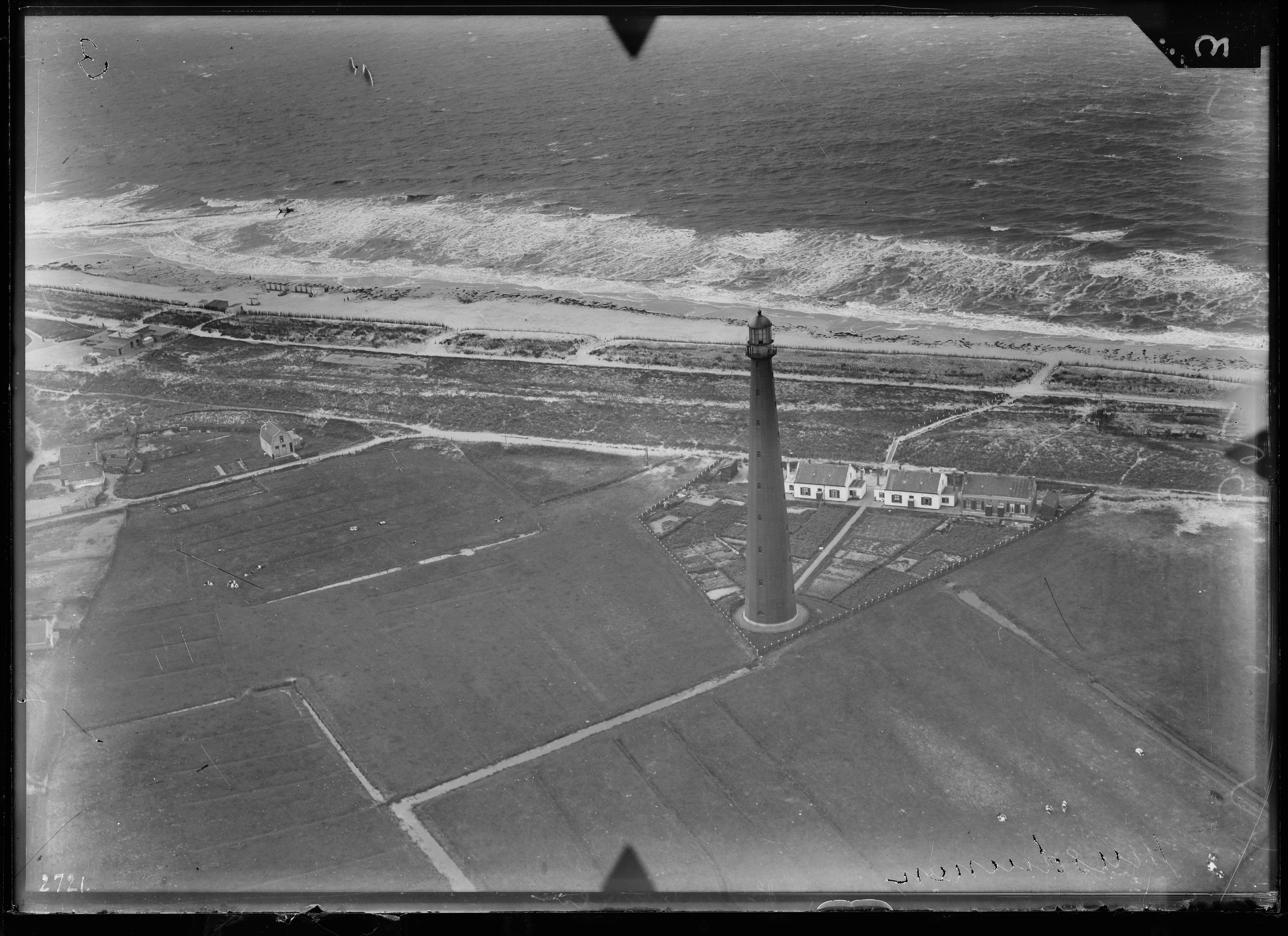 Aerial photograph of Huisduinen, The Netherlands